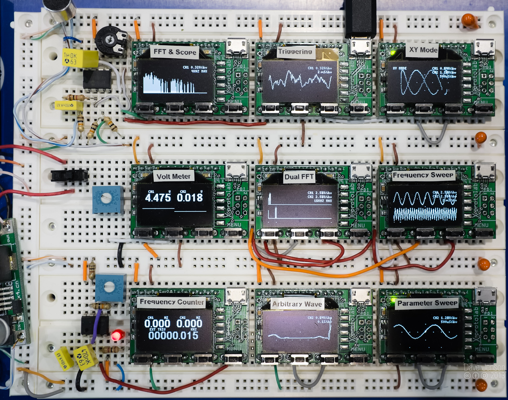 It's amazing how much measurement capability Gabriel packs into these pint sized oscilloscopes he has created!